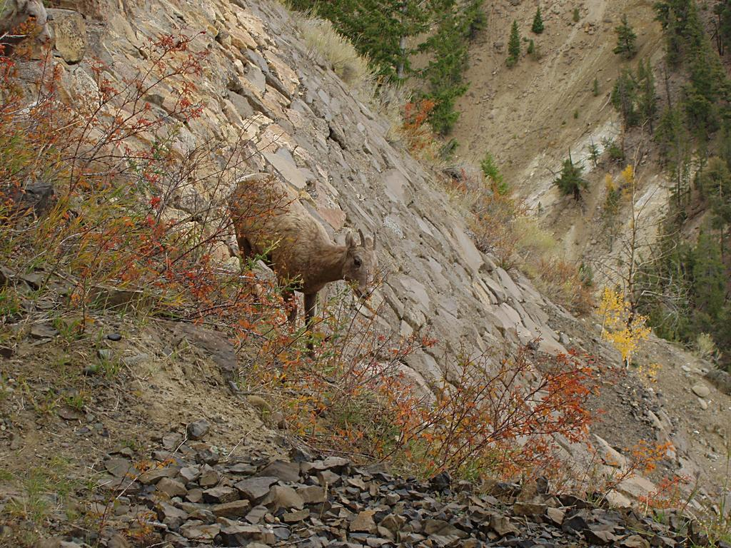 Bighorn Sheep, Yellowstone National Park